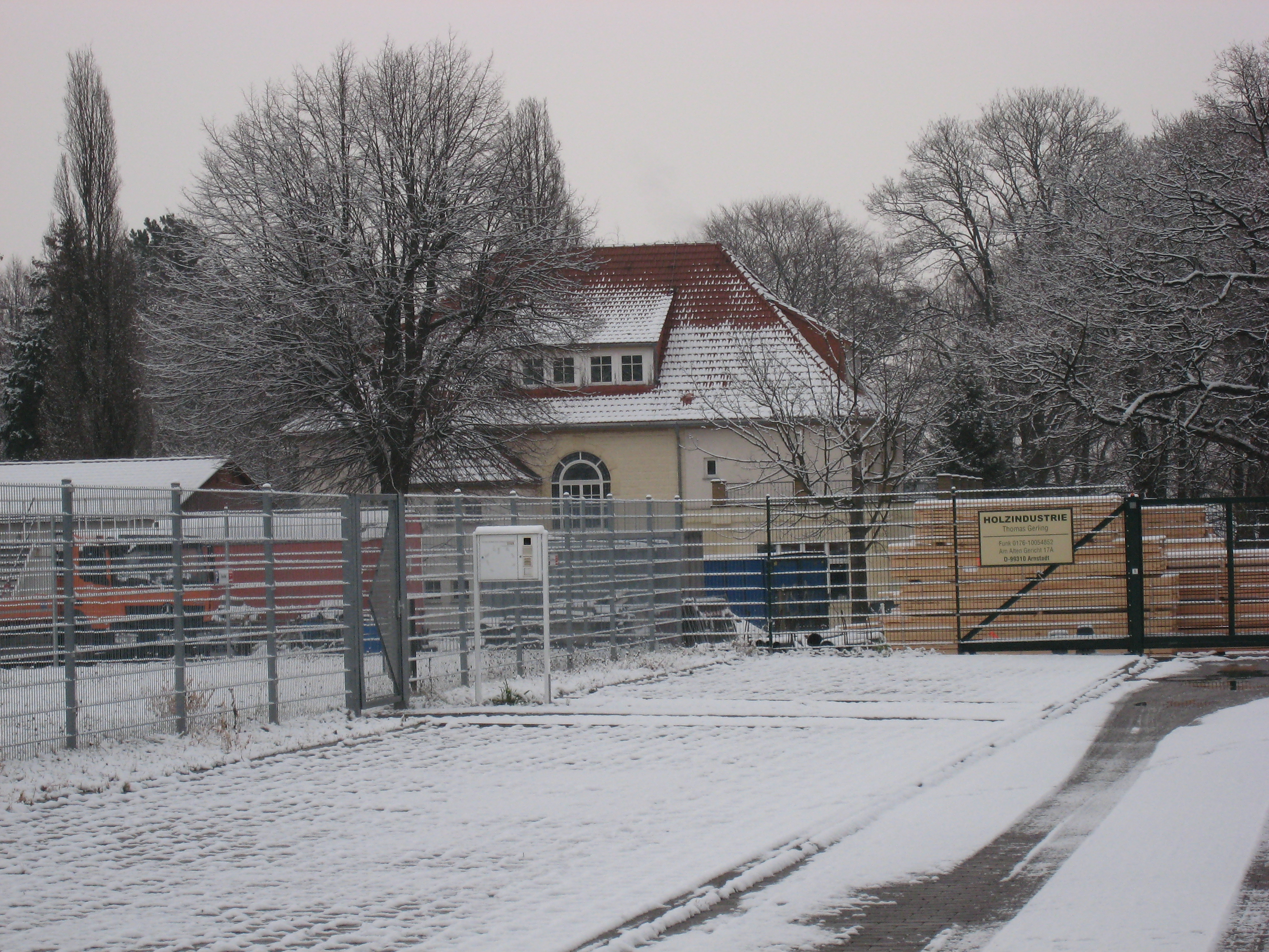 Former youth hostel Lindenhof in Arnstadt, Bierweg 1a